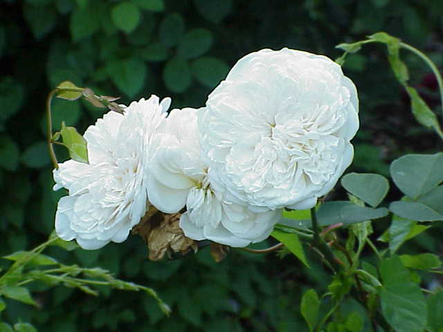 Species: Rosa sp. Family: Rosaceae Cultivar: Colonial White Image No. 77